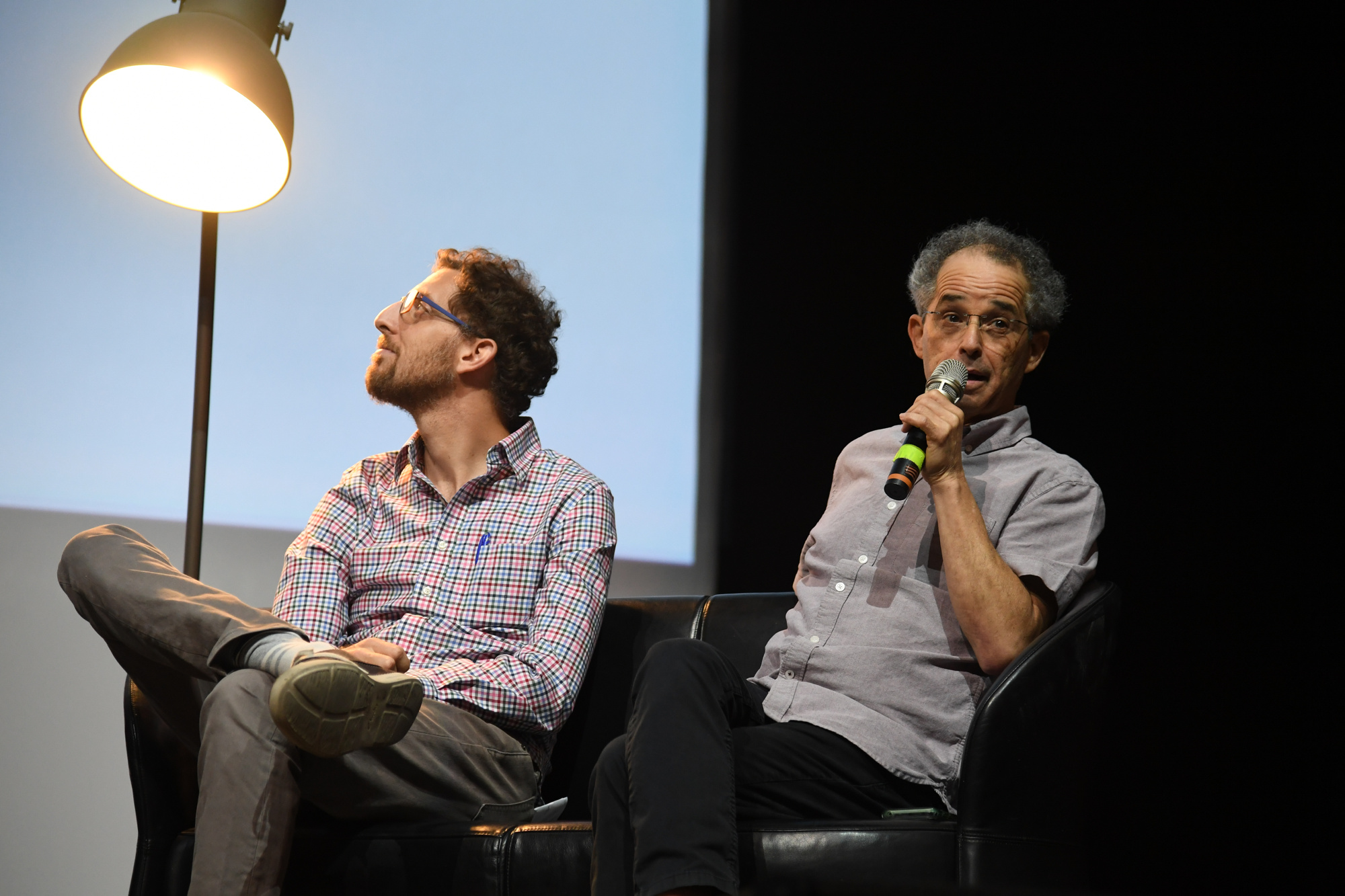 Special screening of the new documentary feature “Apollo 11”, at Tel Aviv University’s (TAU) Smolarz auditorium.